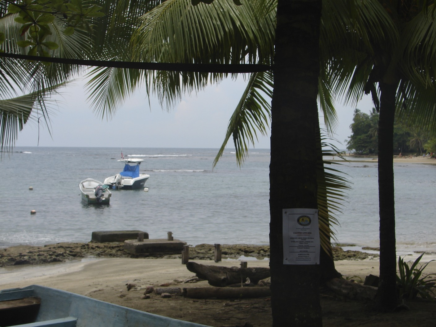 Puerto Viejo de Talamanca in the Limón Province of Costa Rica